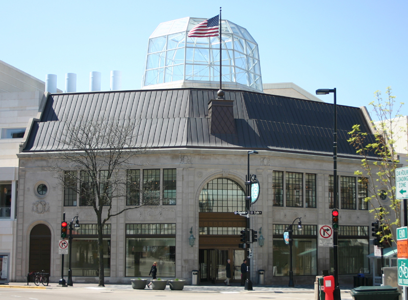 Main entrance of Overture Center for the Arts, Madison, Wisconsin, United States.